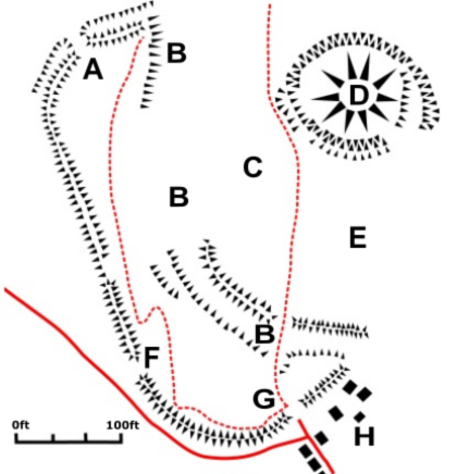 Map of Skipsea Castle in the 21st century, after Armitage, Ella, 1912, The Early Norman Castles of the British Isles (London: John Murray) p. 207